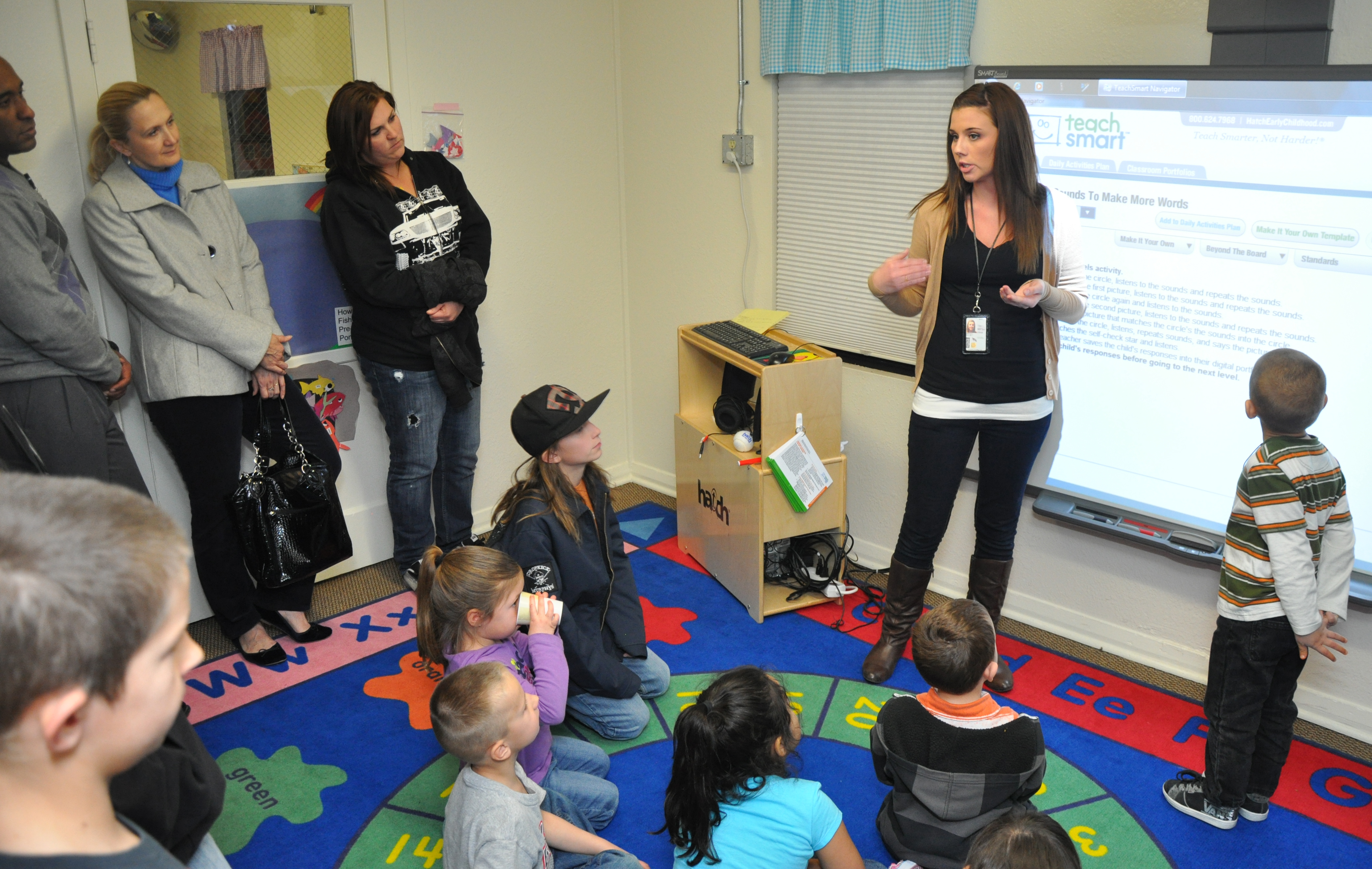 Taylor Cardova, a program assistant with the Child Development Center aboard Marine Corps Logistics Base Barstow Calif., explains to parents of children of the CDC the functions of their smartboard, a new addition to the CDC in their efforts to incorporate more technology into their curriculum during the open house held Jan. 24. The open house was held to afford parents of the children at the CDC an opportunity to find out information about the programs offered there.